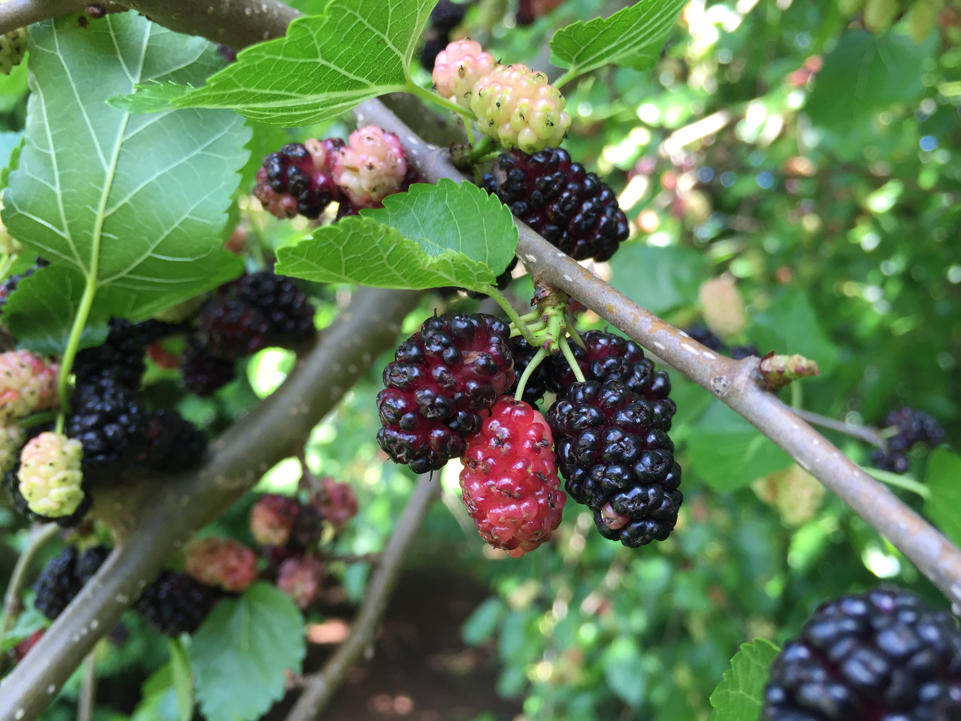 Red Mulberry fruit along Kinross Circle in the Chantilly Highland section of Oak Hill, Fairfax County, Virginia